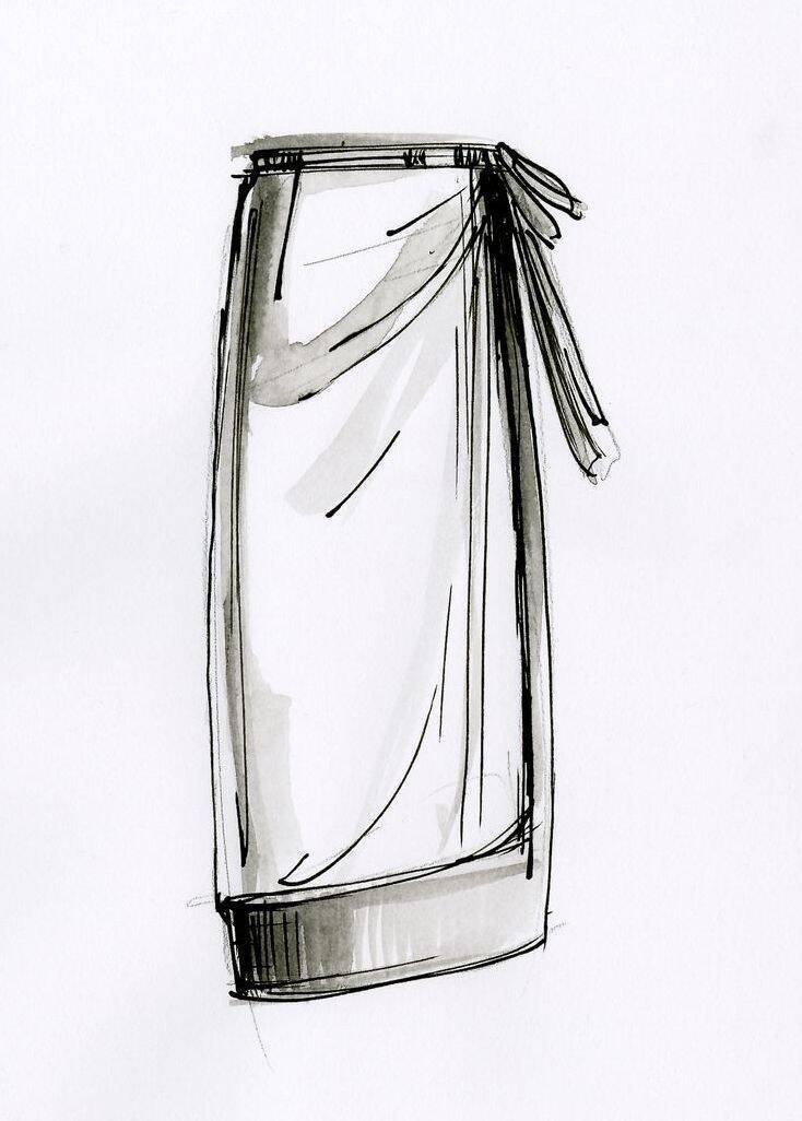 The description of the concept in this drawing is: Main garments formed by wrapping a strip of cloth around the lower part of the body. Worn chiefly by men and women of the Malay Archipelago and the Pacific Islands. Also, similar often preformed garments worn by Western women. (AAT)